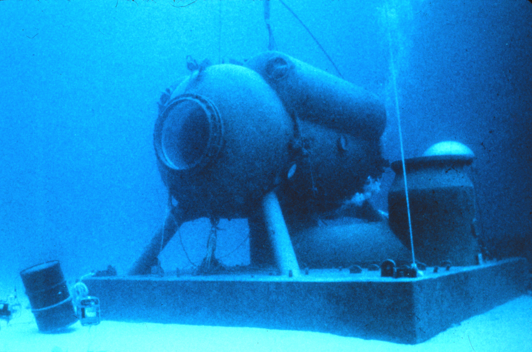 None.